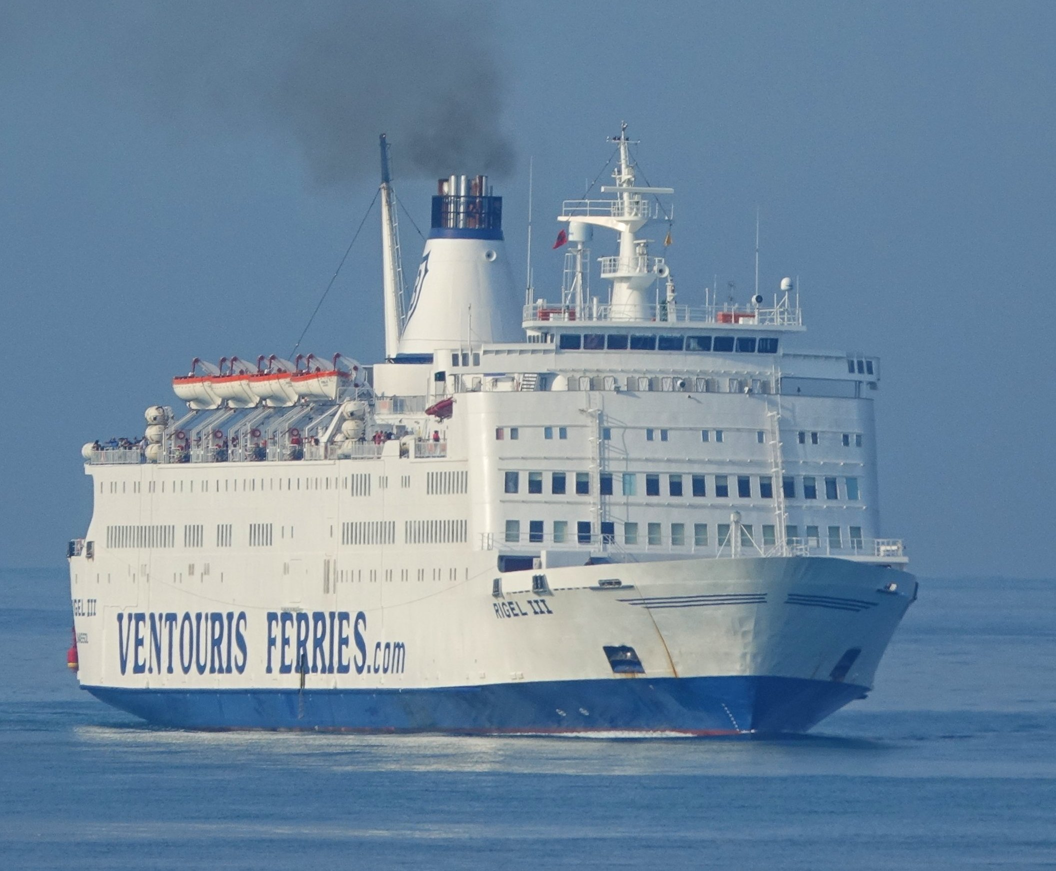 Rigel III, as operated by Ventouris Ferries since 2017, coming to port in Durrës, Albania.